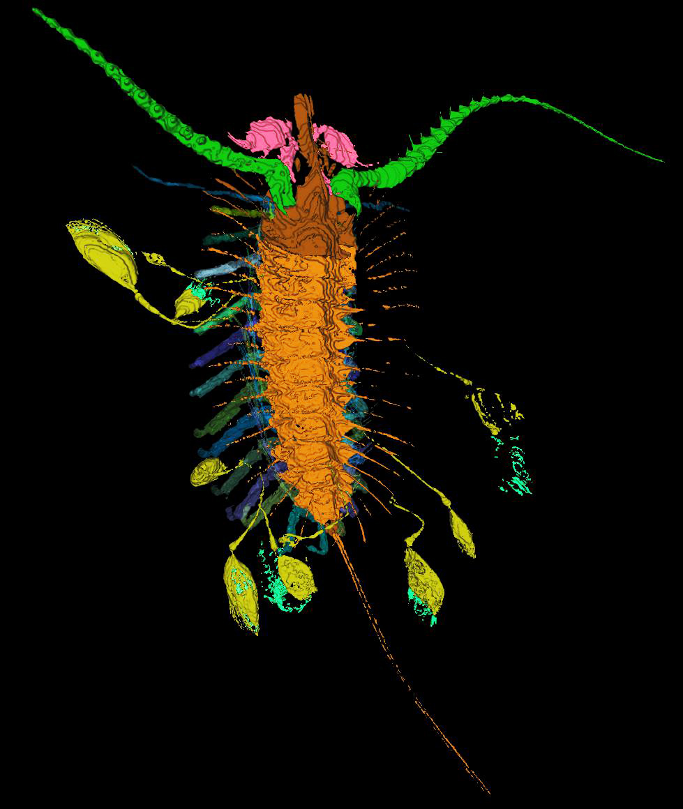 Image of the Silurian arthropod Aquilonifer spinosus, courtesy of the author, Derek Briggs.